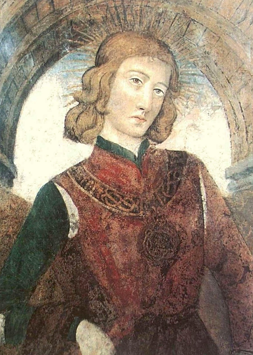 Antoine de Lonhy, portrait of Amadeus IX, Duke of Savoy, fresco, after 1474, San Domenico church, Turin, Italy.